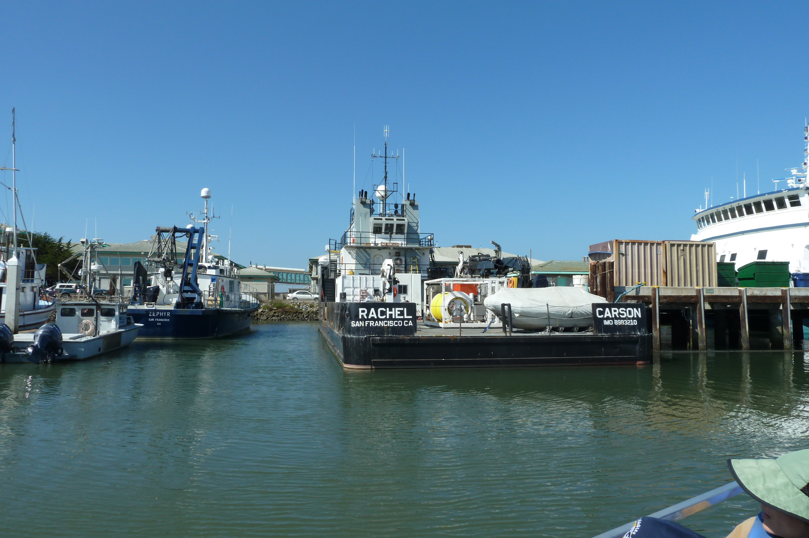 Vessels of the Monterey Bay Aquarium Research Institute moored at Moss Landing, California, United States. R/V Zephyr is at left, R/V Rachel Carson at center, bridge of R/V Western Flyer at right. Photographed from an excursion boat in the harbour.